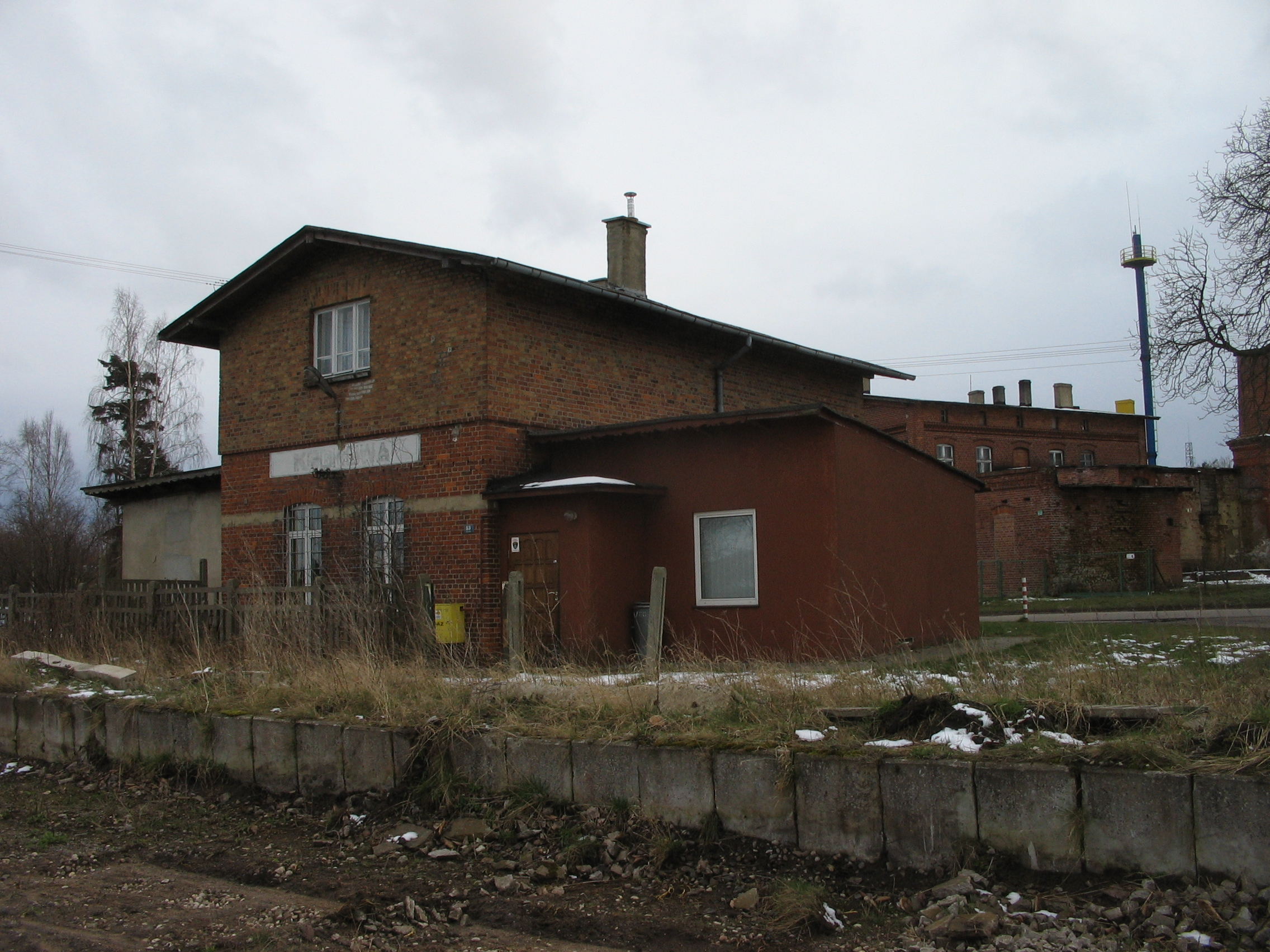 former railway station hall in Krokowa, POLAND